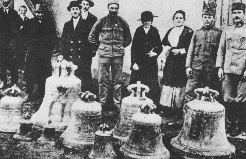 Detained bells of the Czech villages